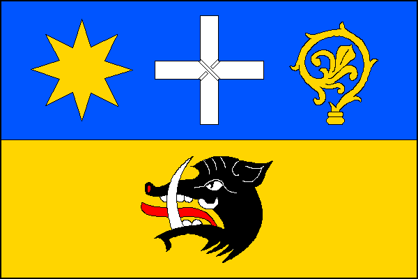 Municipal flag of Svatý Jan pod Skalou village, Beroun District, Czech Republic.